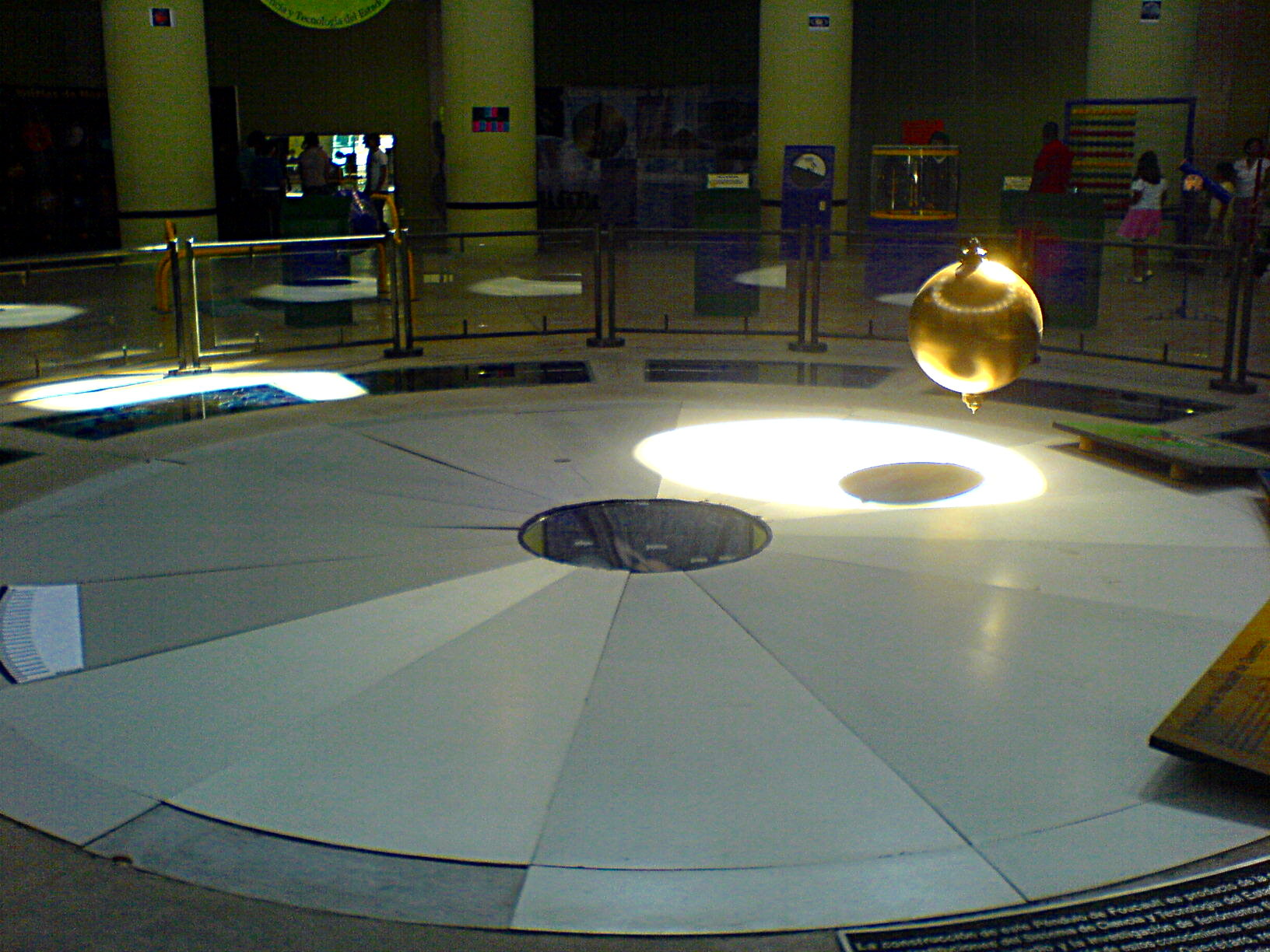 Foucault pendulum at the Querétaro Museum of Science and Technology, in Santiago de Querétaro, Querétaro state, México.